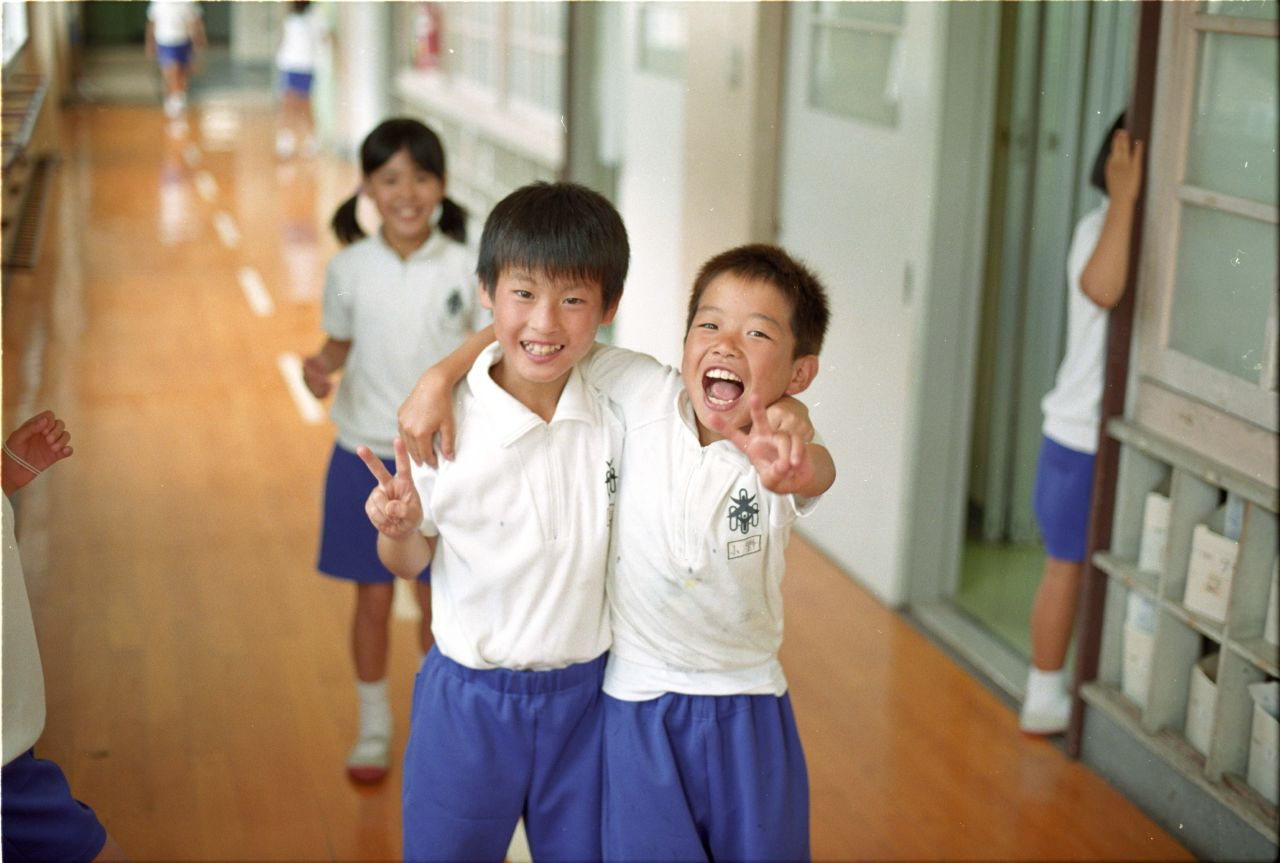 Smiling Japanese schoolboys.abucho_037